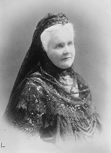 Elisabeth of Wied, Queen Elisabeth of Romania (1843-1916)